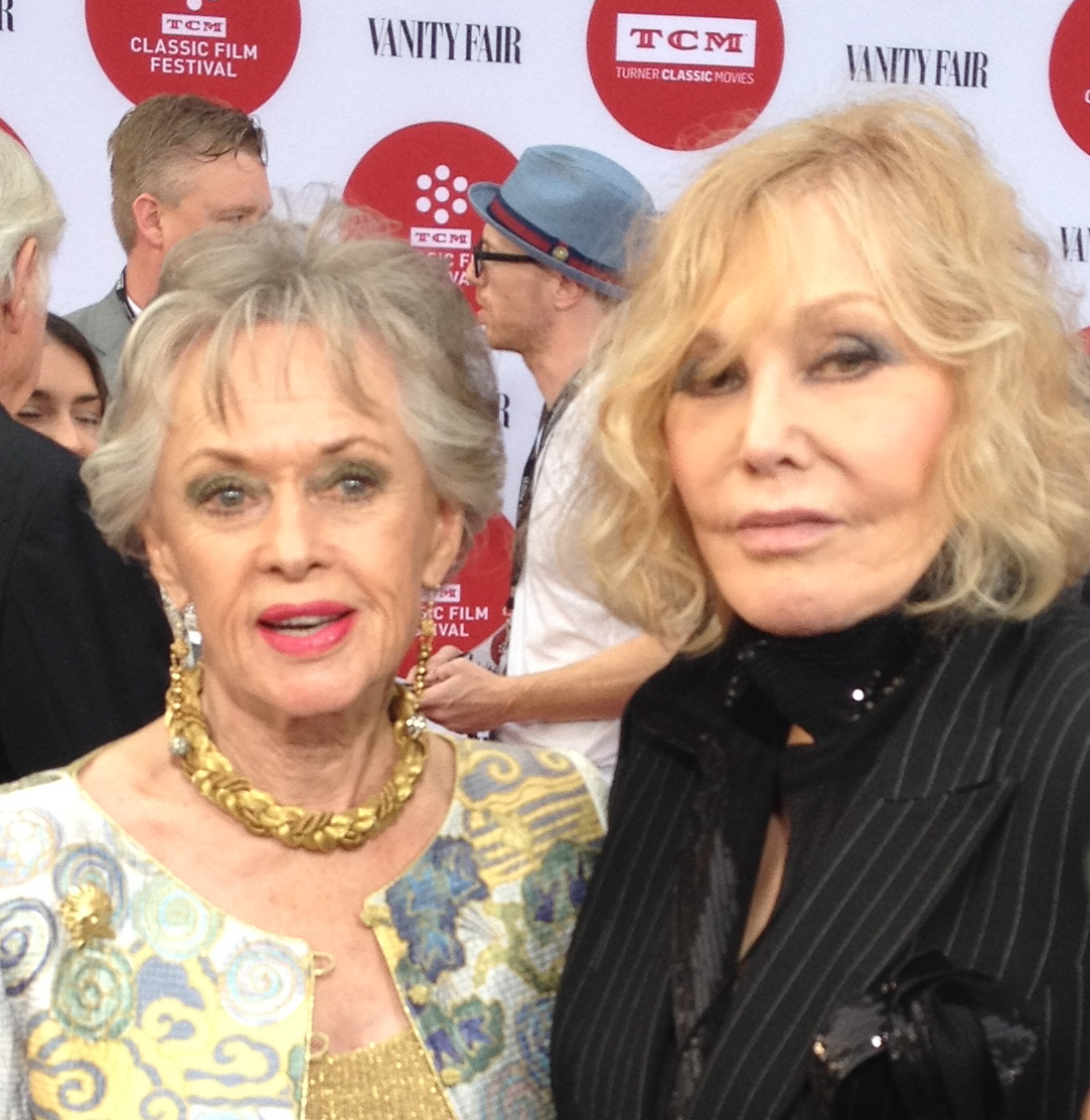 Tippi Hedren and Kim Novak at the 2014 TCM Film Festival